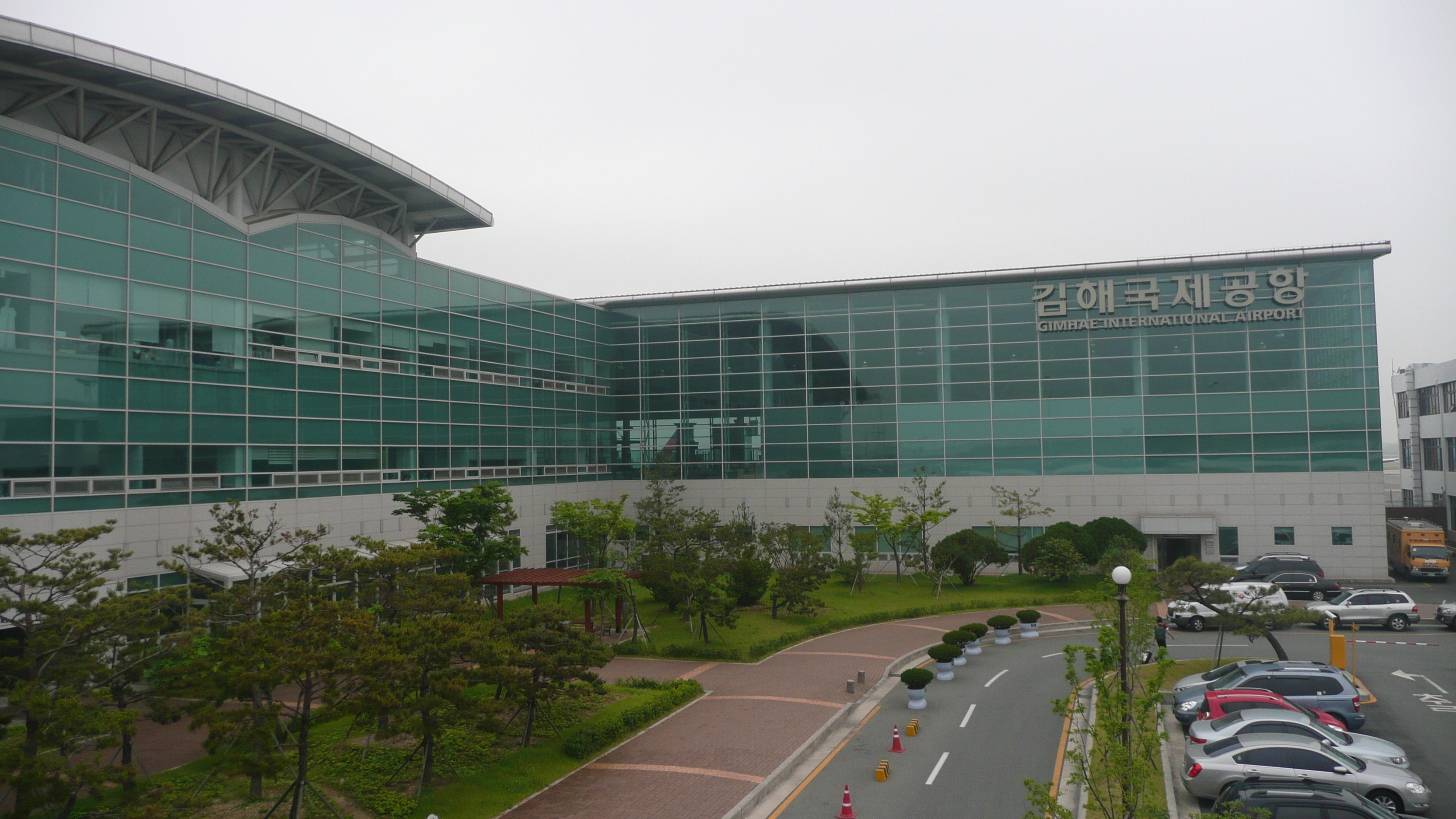 Gimhae International Airport, Busan, South Korea